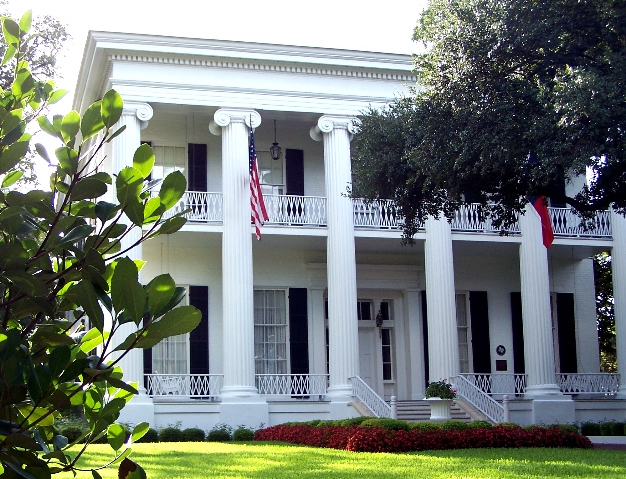 The Texas Governor's Mansion in Austin, Texas, United States was constructed in 1855 in the Greek Revival architecture style. The building was designated a Recorded Texas Historic Landmark in 1962, listed on the National Register of Historic Places on August 25, 1970, and designated a National Historic Landmark on December 2, 1974.